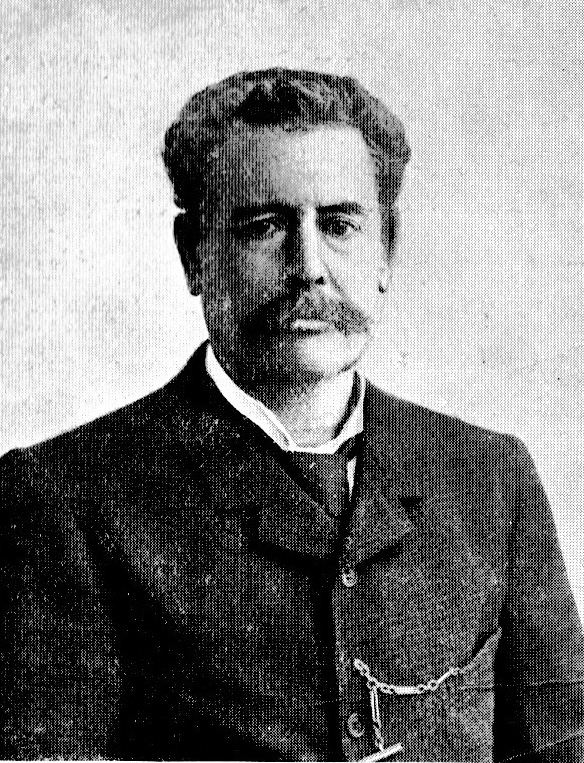 Alexander (Alec) Jardine and his brother, Francis (Frank), made a trip of 1200 miles from Rockhampton, Queensland, to Somerset, Queensland, in 1864. The area had not been explored before their trip.